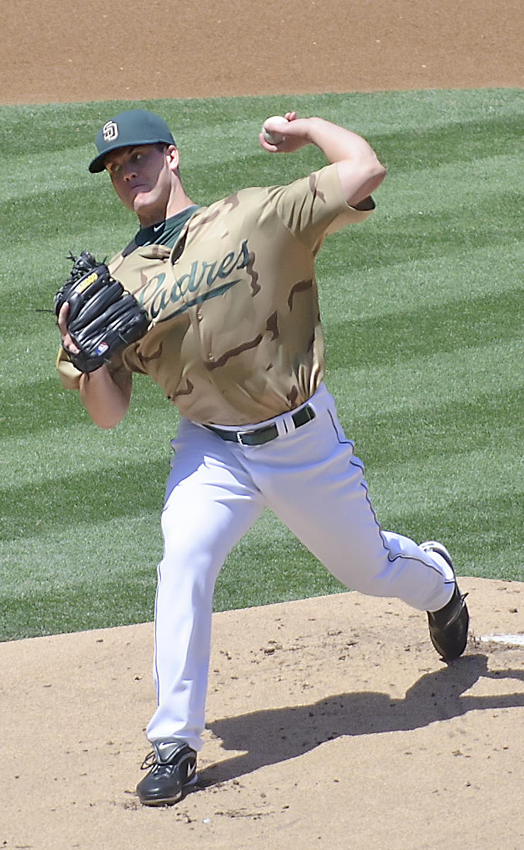 Clayton Richard